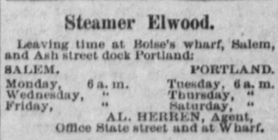 Advertisement for the steamer Elwood, operating on the Willamette River, placed January 21, 1892 in the Evening Capital Journal, Salem, Oregon.